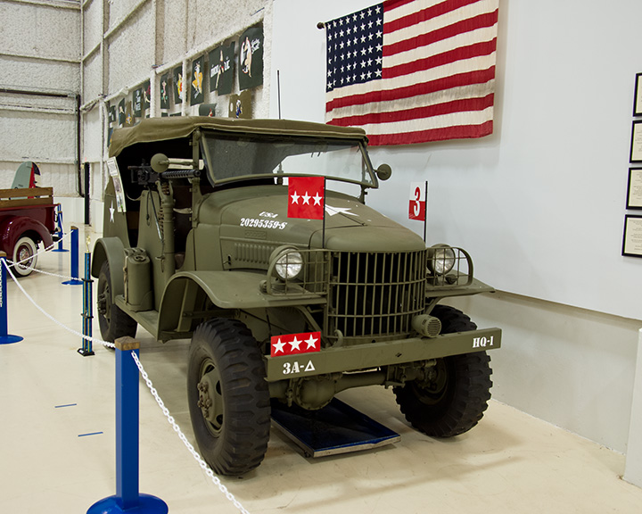 A Dodge-built vehicle identical to the one used by Gen. George Patton as a command car when he commanded Third Army during World War II. This one has been painted to look exactly like Patton's vehicle, down to the serial number painted on its hood. At the Lone Star Flight Museum in Galveston, TX.